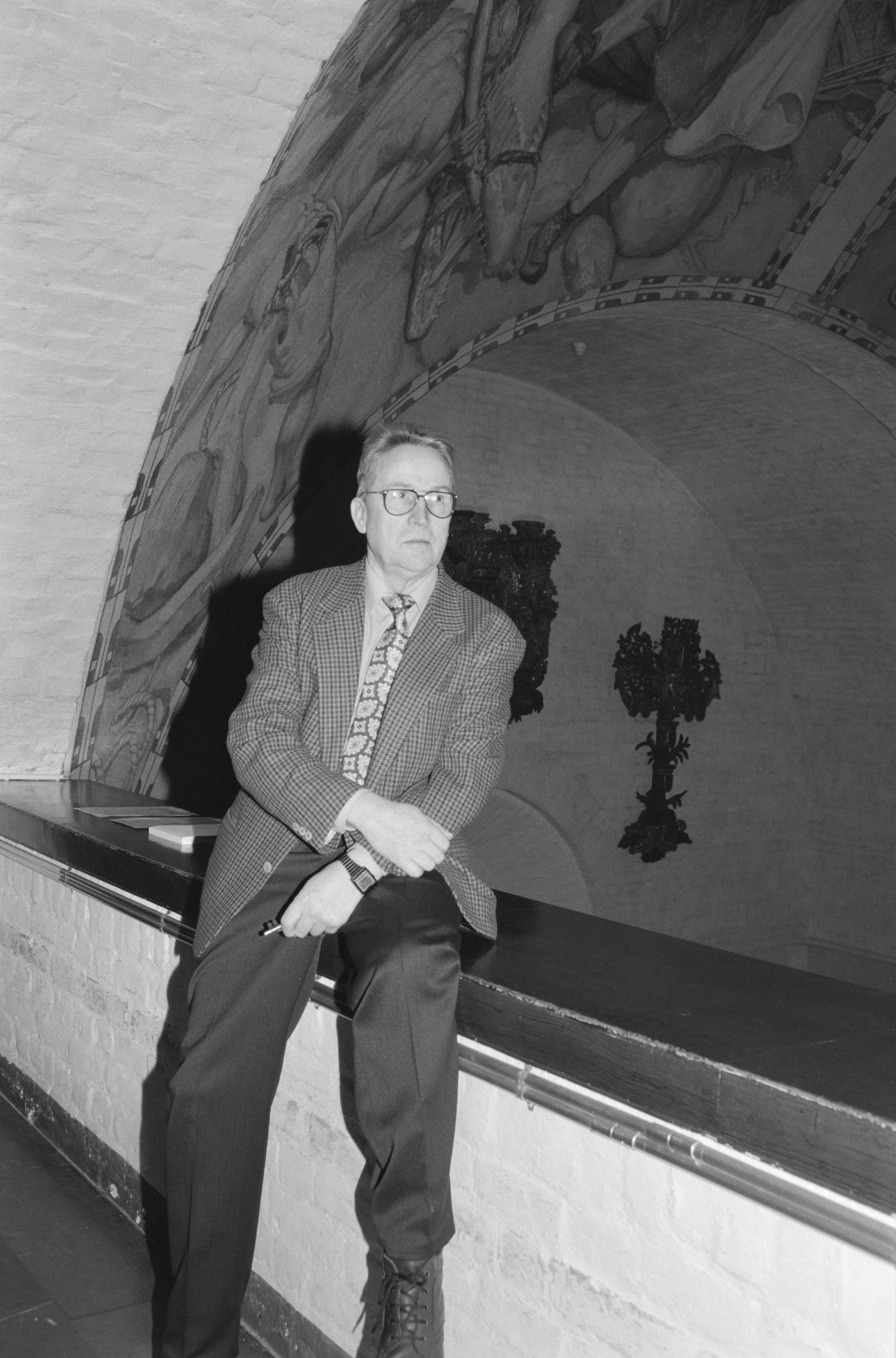 Photograph of the Finnish ethnologist and museum director Dr. Osmo Vuoristo (1929–2011).